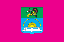 Flag of Pervomajskyj district (Ukraine)